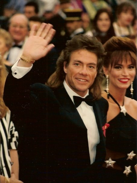 Jean-Claude Van Damme and Darcy LaPier at the Cannes Film Festival